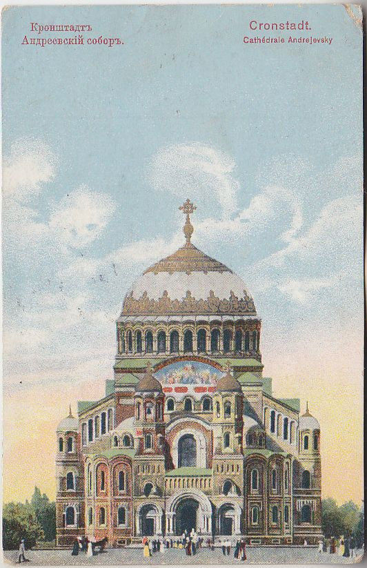 Kronstadt. The navy Cathedral. Old postcard pre 1916, incorrectly (mistake) inscripted as "St Andrew Cathedral" .